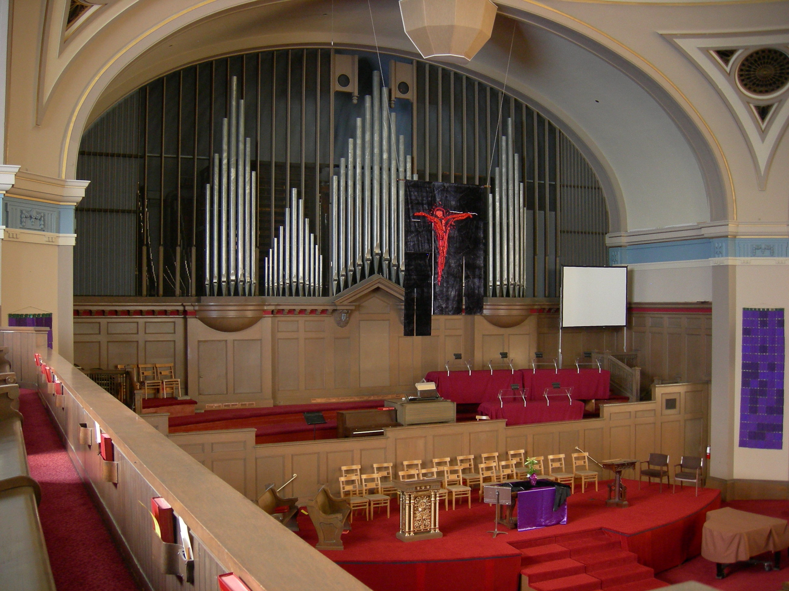 First United Methodist Church, Seattle, Washington. Interior (sanctuary), looking from south balcony towards altar, pulpit, and organ pipes.